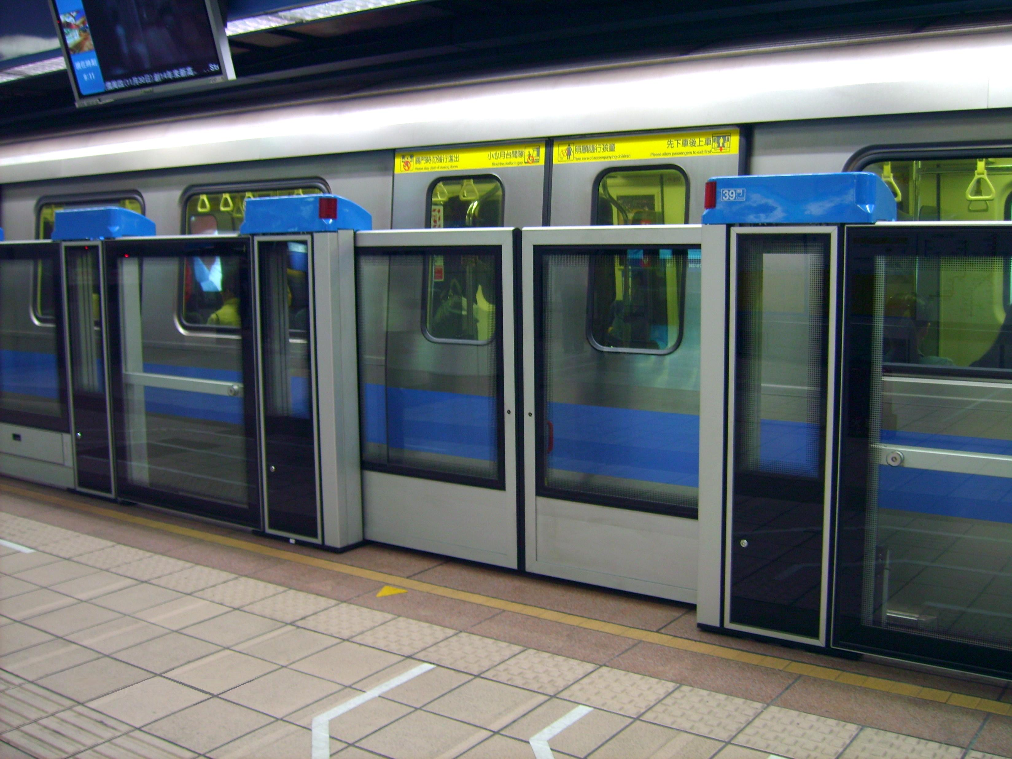 Gate Door was closed when train to depart at the Taipei MRT Zhongxiao Fuxing Station.